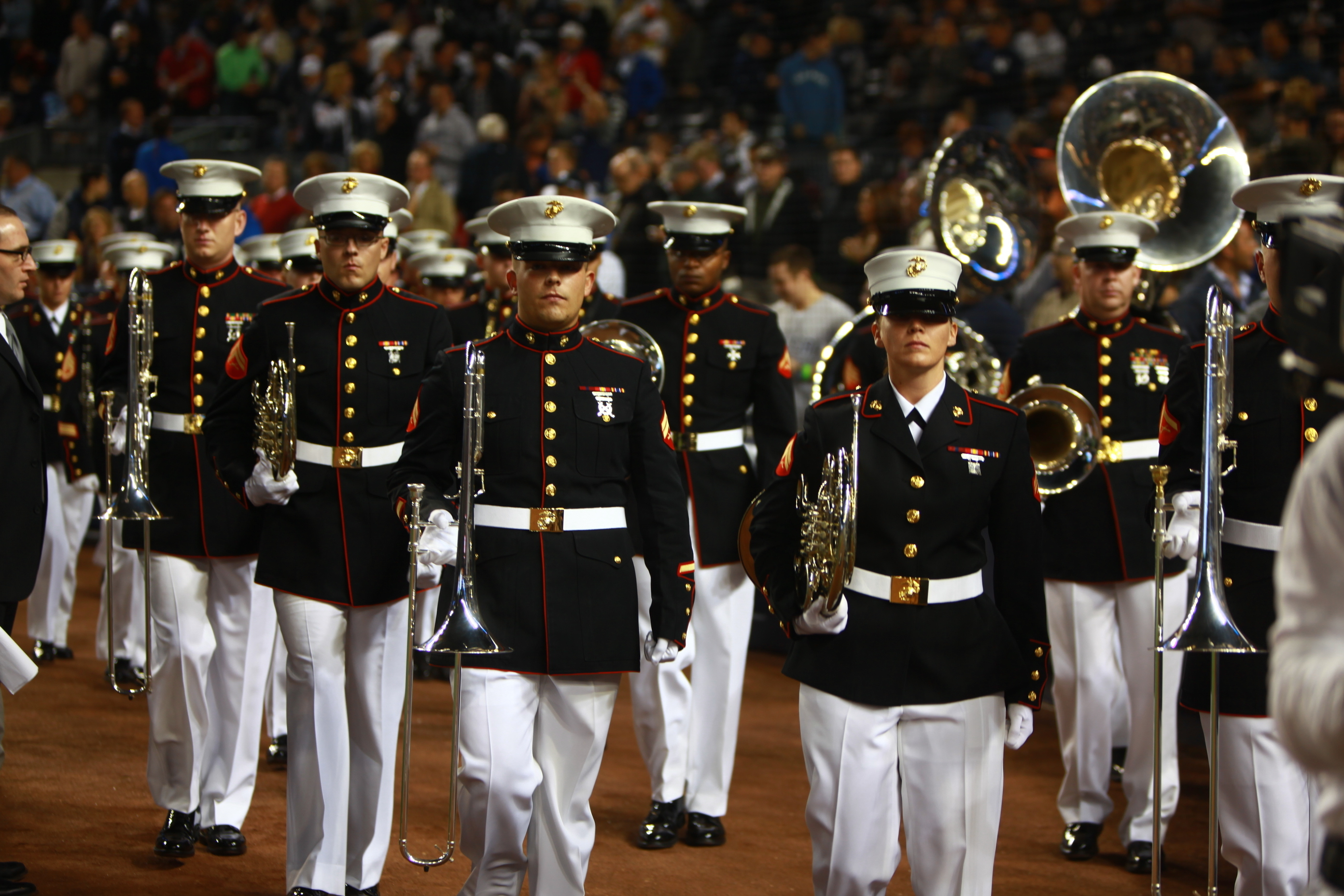 The 2nd Marine Aircraft Wing Band, based at Marine Corps Air Station Cherry Point, N.C., marches away from the field at Yankee Stadium prior to Game 3 of the American League Division Series Oct. 10. Marine Corps bands are required to maintain regular Marine Corps training standards, as well as ensure their capability to serve as a provisional rifle platoon.